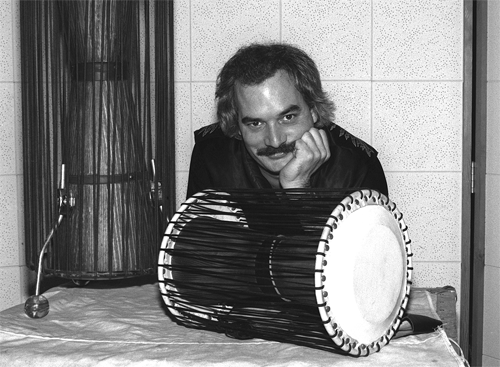 Bill Kreutzmann, drummer with the Grateful Dead. (January 1982) Posing with two African drums, dunduns